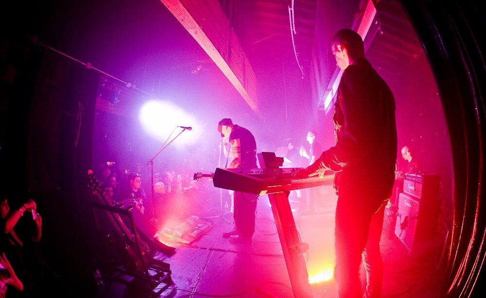 Wide angle shot of Kevorkian Death Cycle performing live at Das Bunker in Los Angeles, CA on Dec. 10, 2010